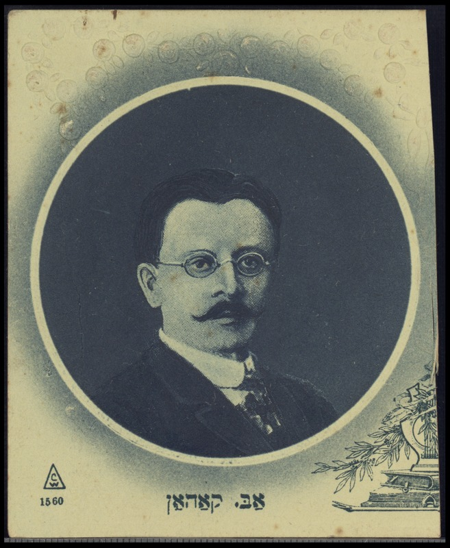 Avraham Cahan